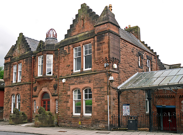 Front of the Loreburn Hall - 43 Newall Terrace, Dumfries